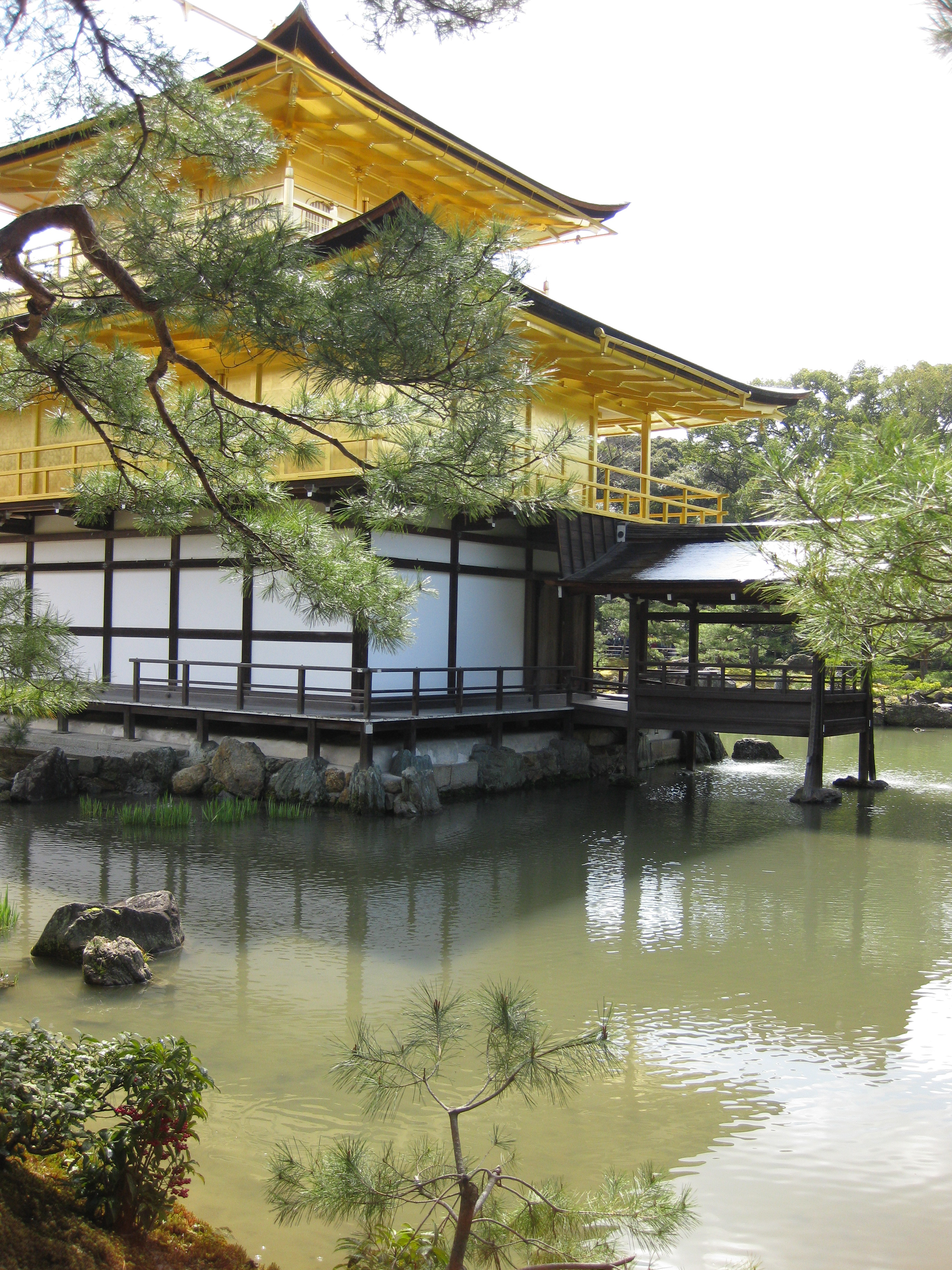 Kinkaku-ji or temple of the Golden Pavilion, in Kyoto, Japan.